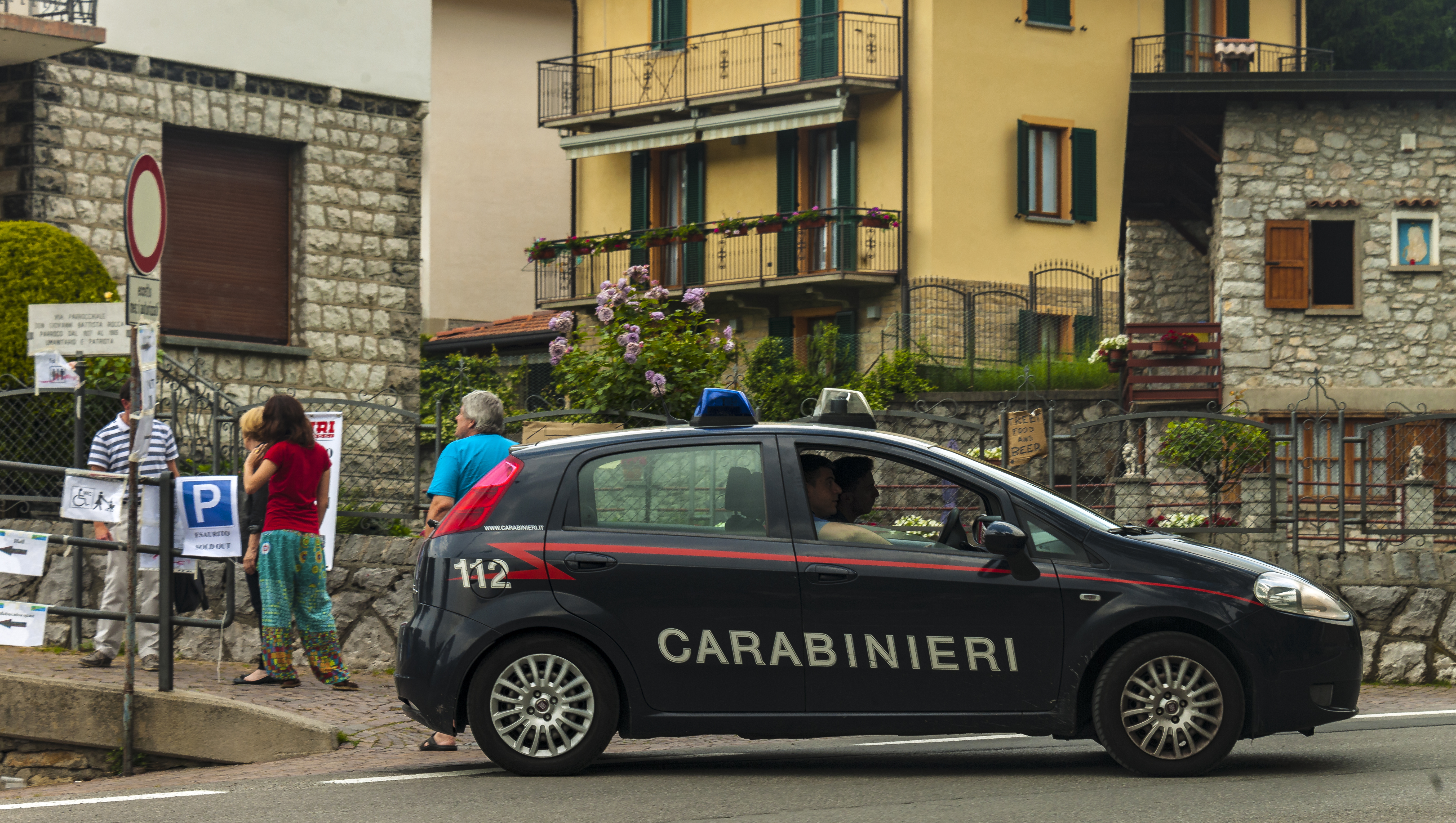 Carabinieri on patrol in marked car in central Esino Lario